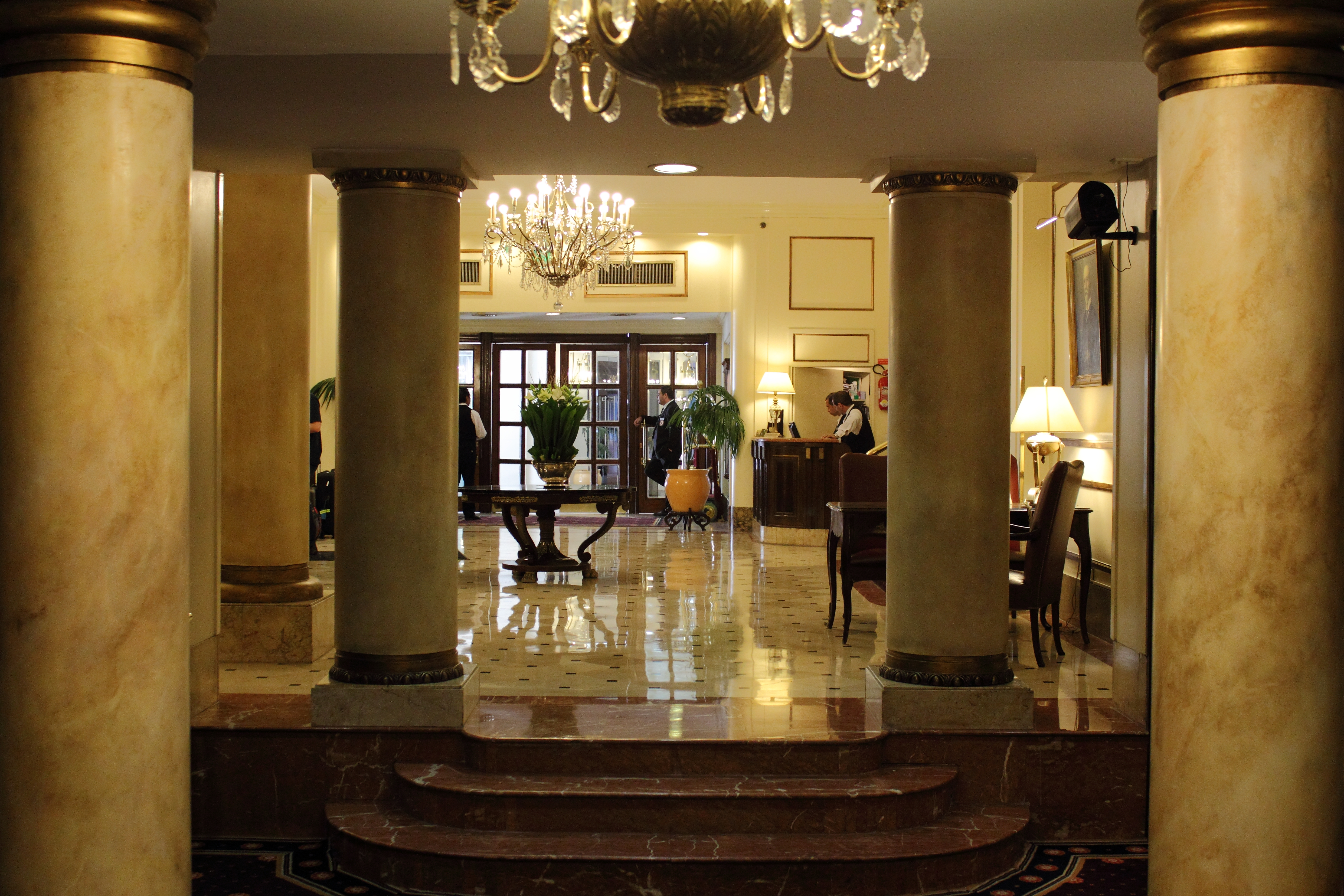 Marriott Plaza Hotel Buenos Aires, Argentina